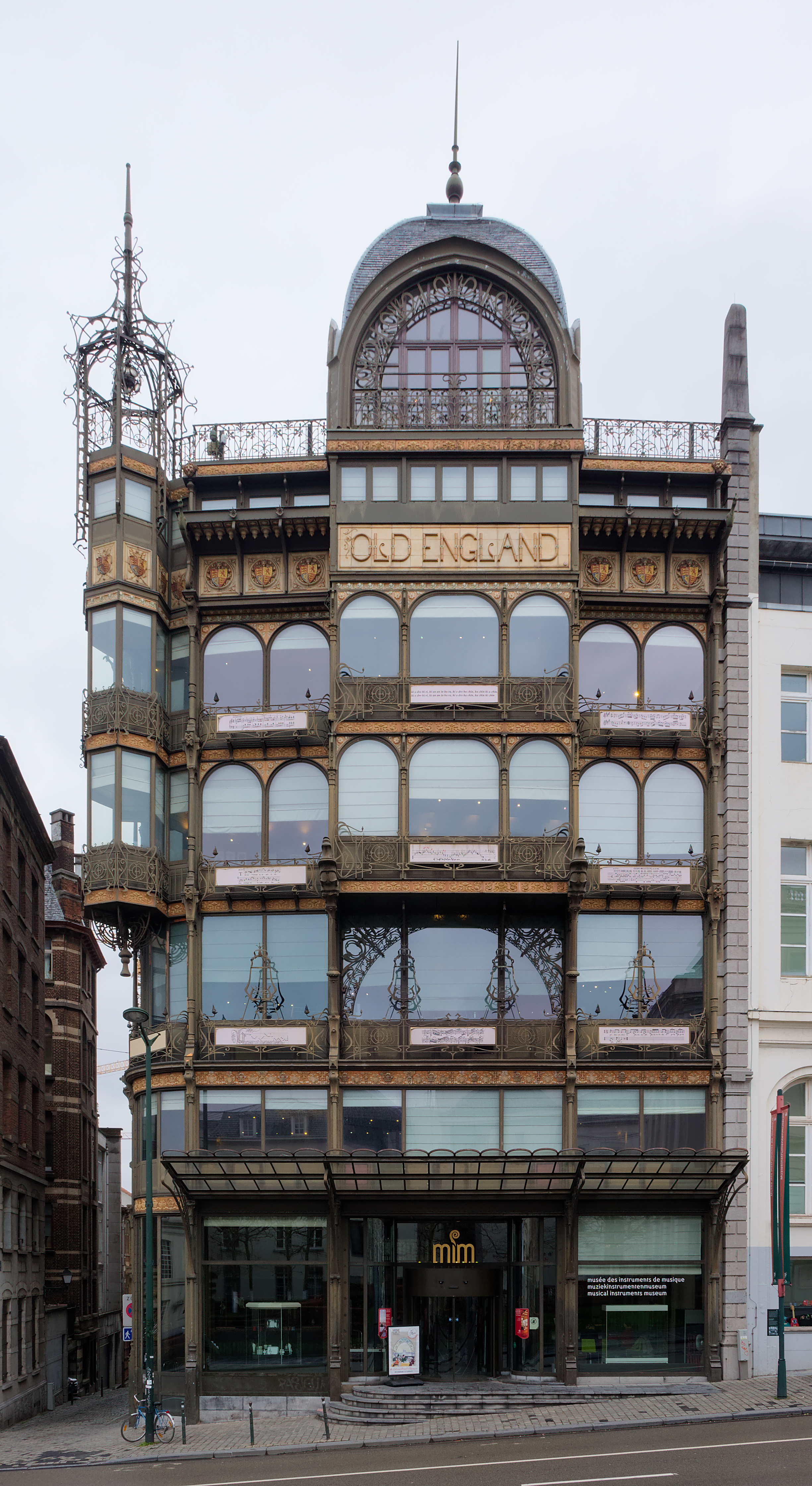 Old England facade, currently the Musical Instrument Museum in Brussels